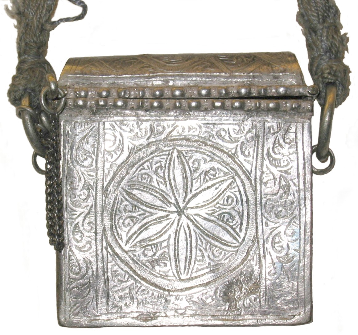 Koran's box